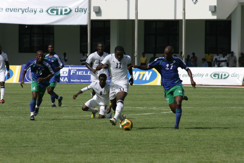 Sulley Muntari; a professional footballer, dribbling with the ball, playing for the Ghana nation football team in a 2010 FIFA World Cup Qualification match.